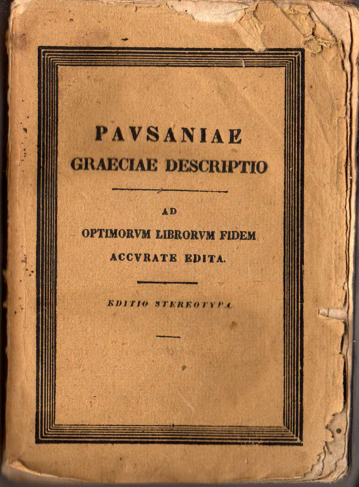 Book cover, Pausanias publ. Tauchnitz, 1829